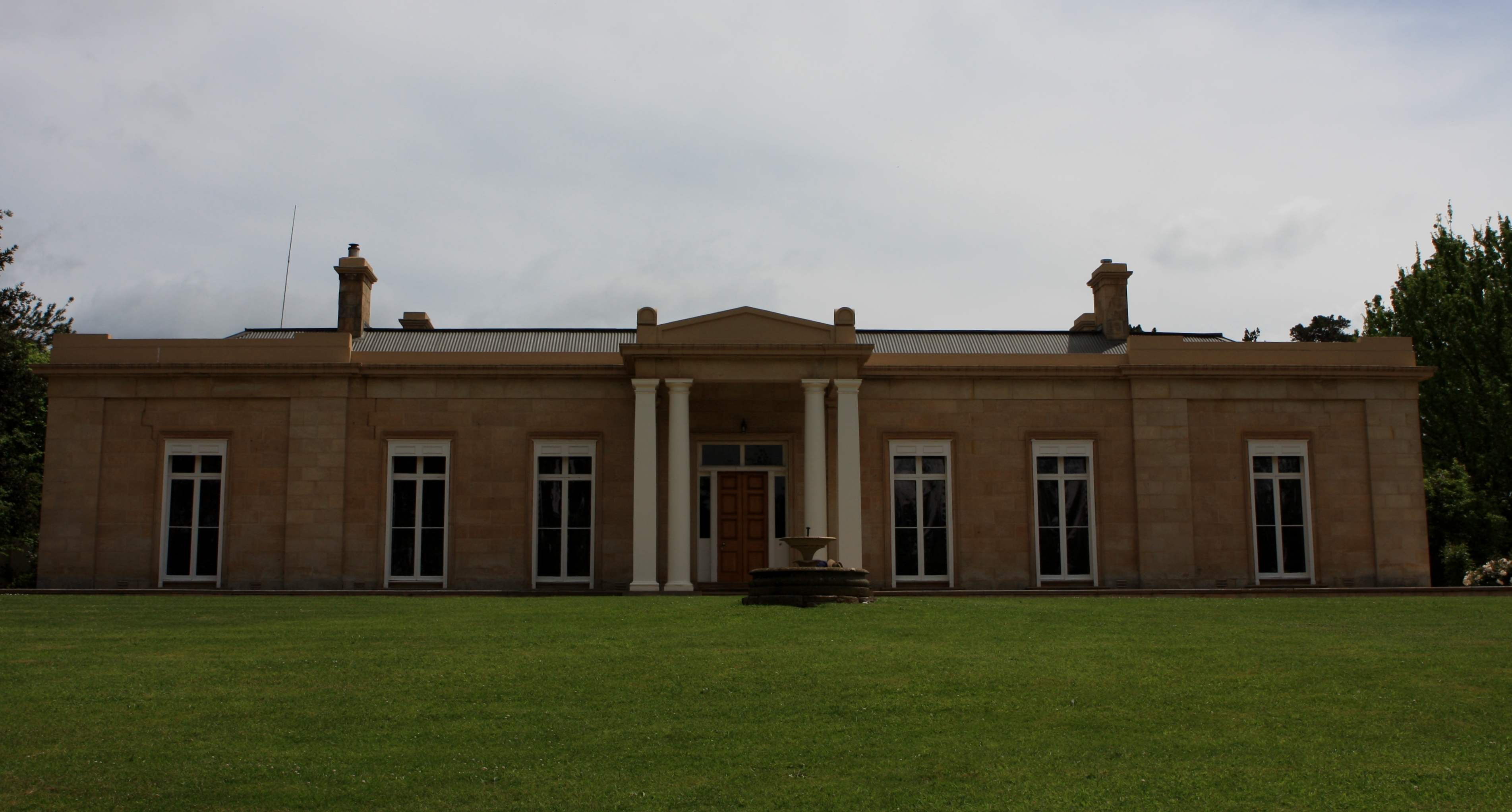 Panshanger House in Longford, Tasmania, is an impressive Georgian home which has been in the family for four generations, set amid 8 hectares of woodland and sweeping lawns. Built by Joseph Archer. oz9 049